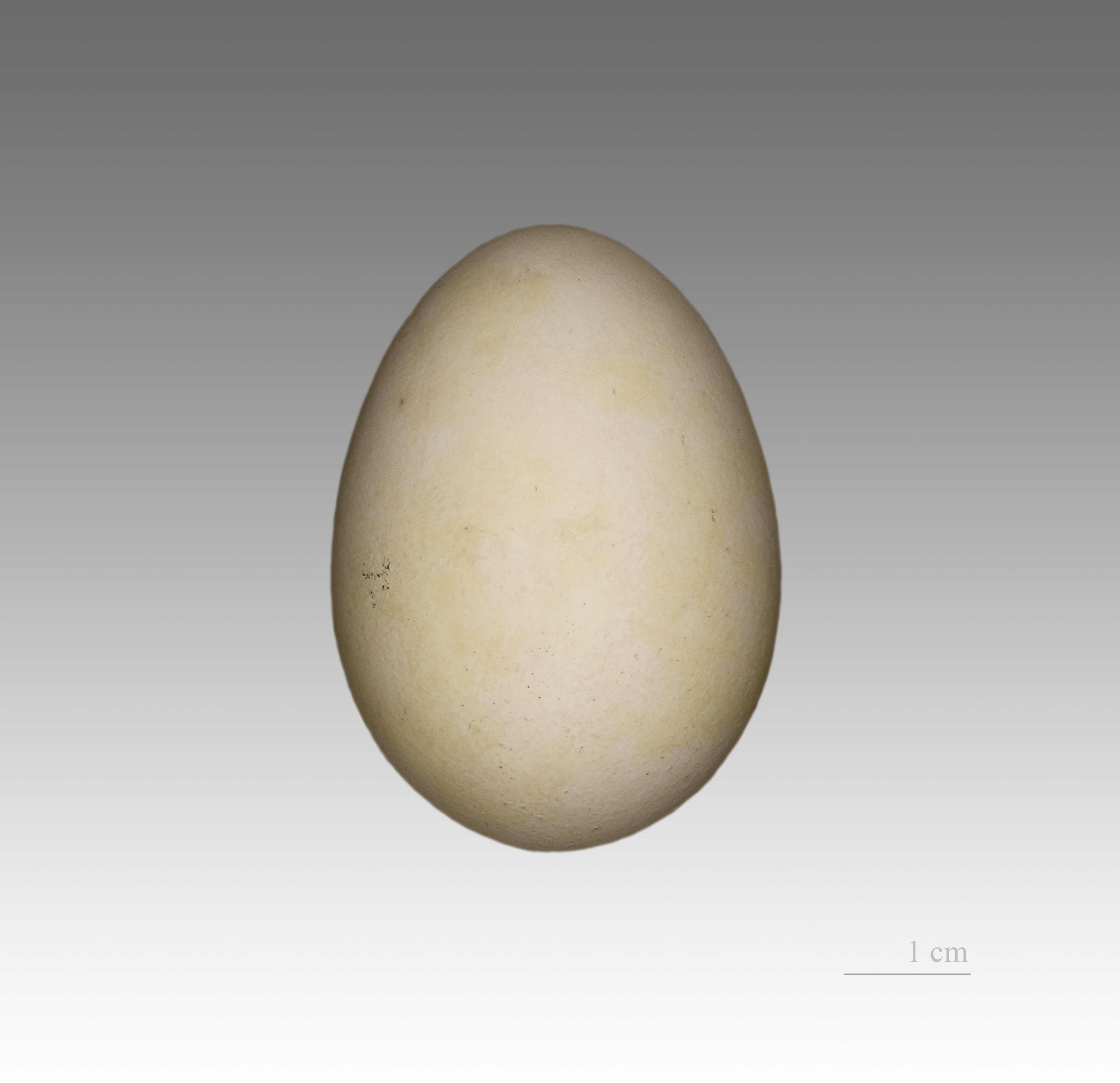 Egg of Salvin's Prion. Collection of René de Naurois /Jacques Perrin de Brichambaut. Locality: Île de l'Est Crozet Islands, France.